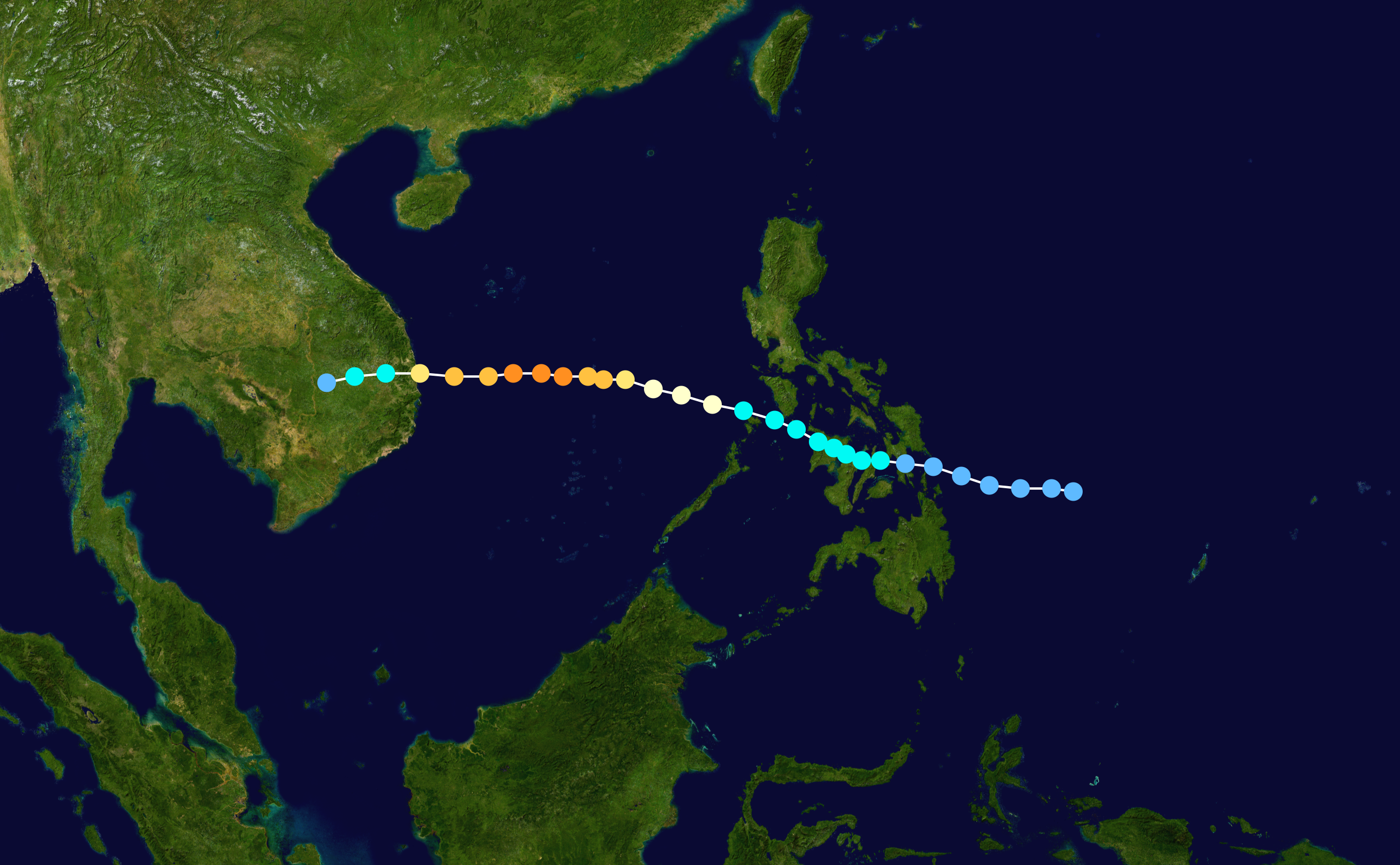 Track map of Typhoon Lingling of the 2001 Pacific typhoon season. The points show the location of the storm at 6-hour intervals. The colour represents the storm's maximum sustained wind speeds as classified in the Saffir–Simpson scale (see below), and the shape of the data points represent the nature of the storm, according to the legend below. Saffir–Simpson scale Tropical depression≤38 mph≤62 km/h Category 3111–129 mph178–208 km/h Tropical storm39–73 mph63–118 km/h Category 4130–156 mph209–251 km/h Category 174–95 mph119–153 km/h Category 5≥157 mph≥252 km/h Category 296–110 mph154–177 km/h Unknown Storm type Tropical cyclone Subtropical cyclone Extratropical cyclone / Remnant low / Tropical disturbance / Monsoon depression